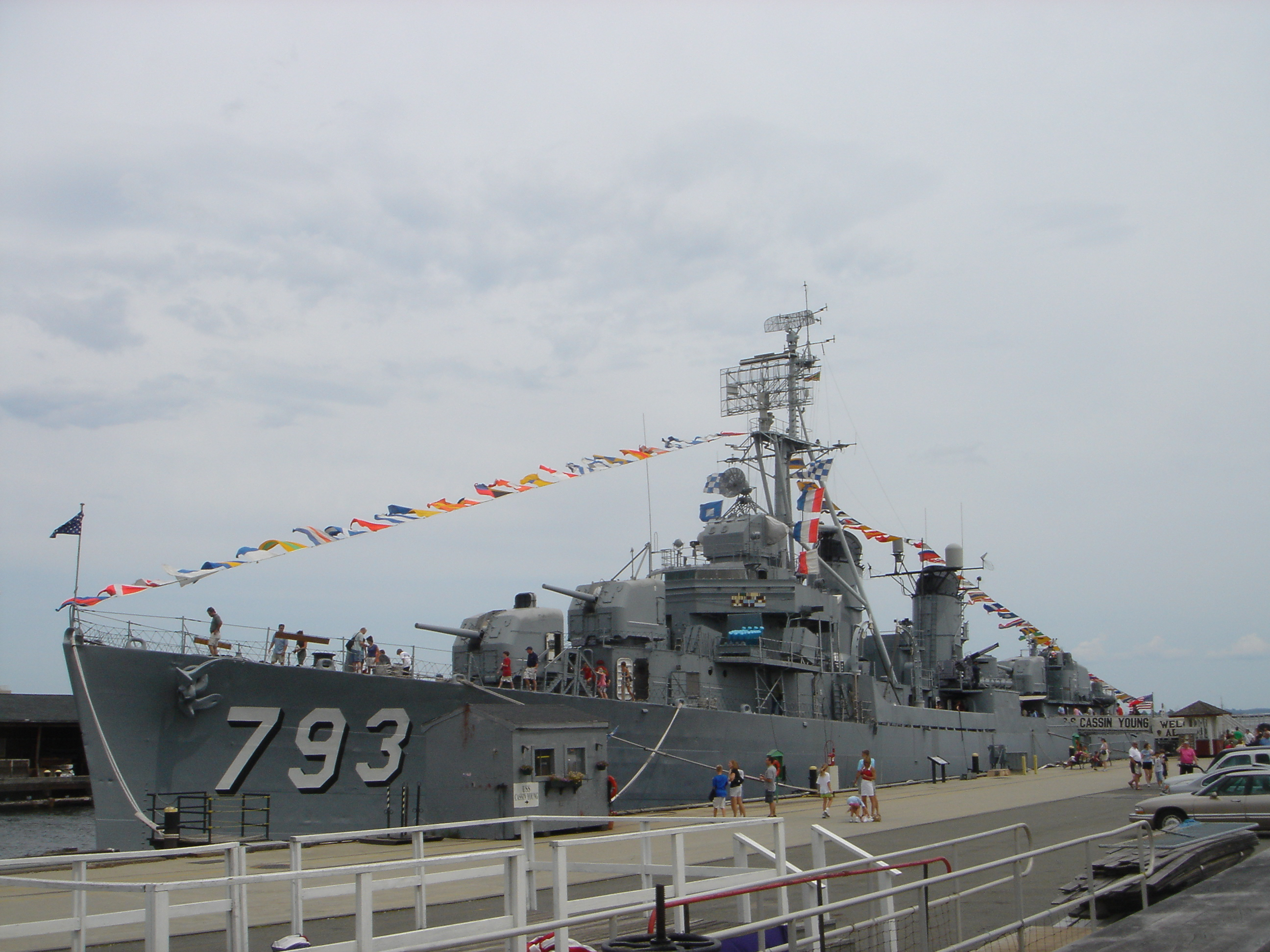 Taken on the 4th of July, 2007.